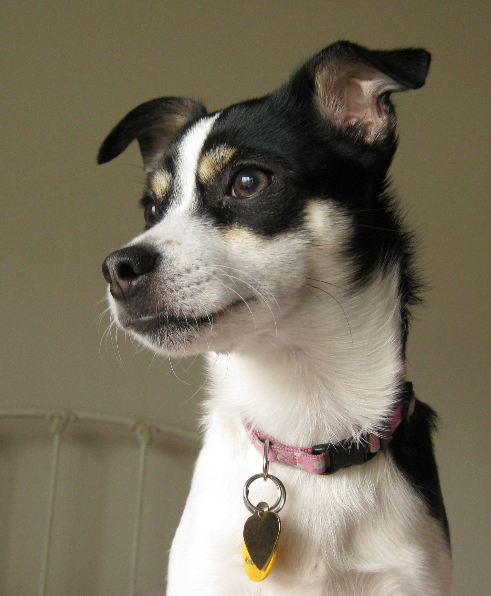 Lucy, my Rat Terrier, is sitting on the bed looking across our second-floor balcony at the park across the street. She's watching for her dog friends and children friends to arrive over there, so she can run in circles and yip to tell me "let's visit!" Zoom all the way in (click the photo, then click again) to see the sliding glass door with the park and trees behind it reflected in her eye.